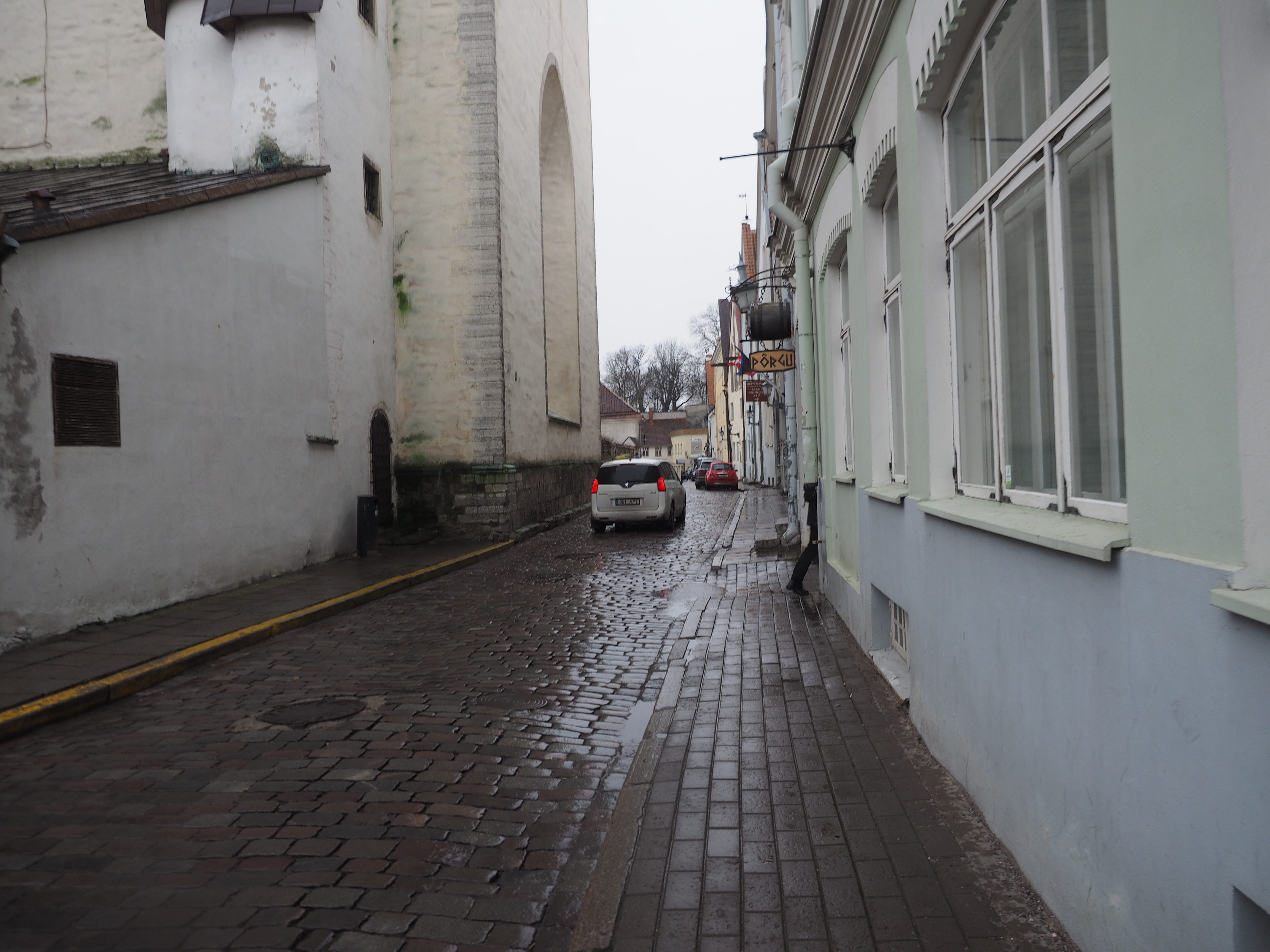 Rüütli street in the old town of Tallinn, Estonia. On the left is the Niguliste church, on the right is restaurant Põrgu.